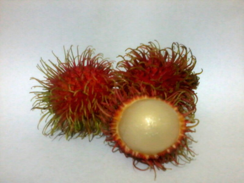 Rambutan in white background